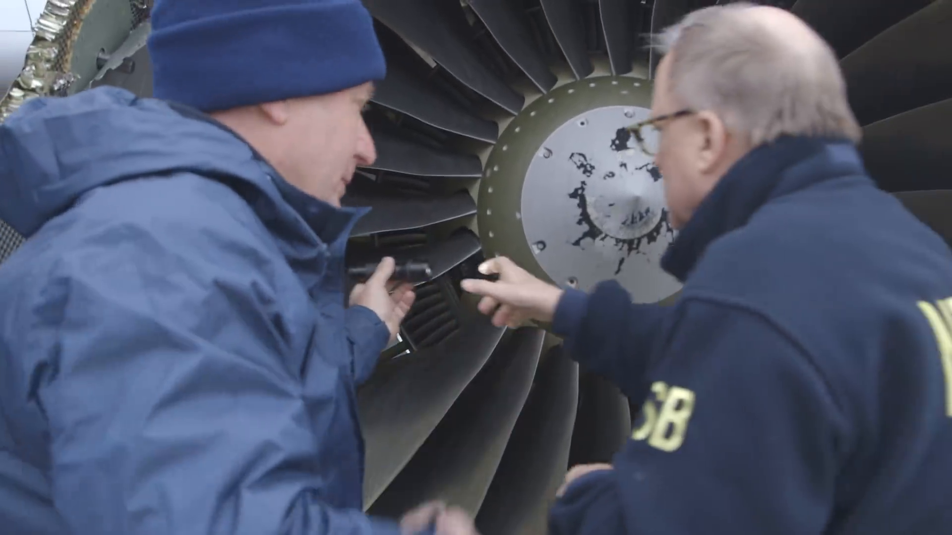 NTSB investigators conducting a preliminary walkthrough of Southwest Airlines flight 1380 in Philadelphia, PA PHL N772SW Screengrab from video